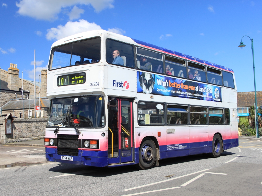 Preserved Olympian A754VAF leaving Penzance Bus Station during a heritage event. It is carrying its final liveyr and number 34754 as part of the First Devon and Cornwall fleet but was delivered to predecessor company Western National in 1983 as their number 1807.